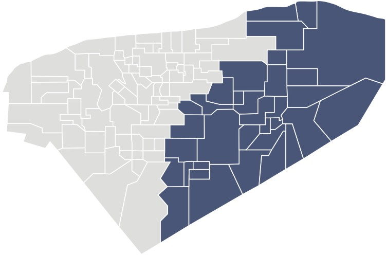 Map of the First Federal Electoral District of the State of Yucatan, México.